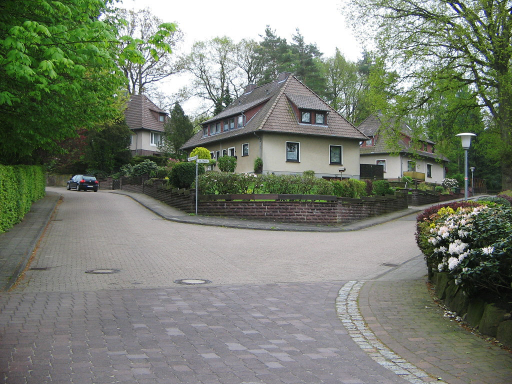 Bomlitz-Benefeld, Lower Saxony, Germany, housing-area in the Warnau valley